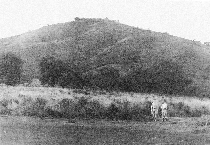 Two United States Marines standing in front of Coyotepe Hill near Masaya, Nicaragua in October of 1912, after the American capture of the fort from rebels.